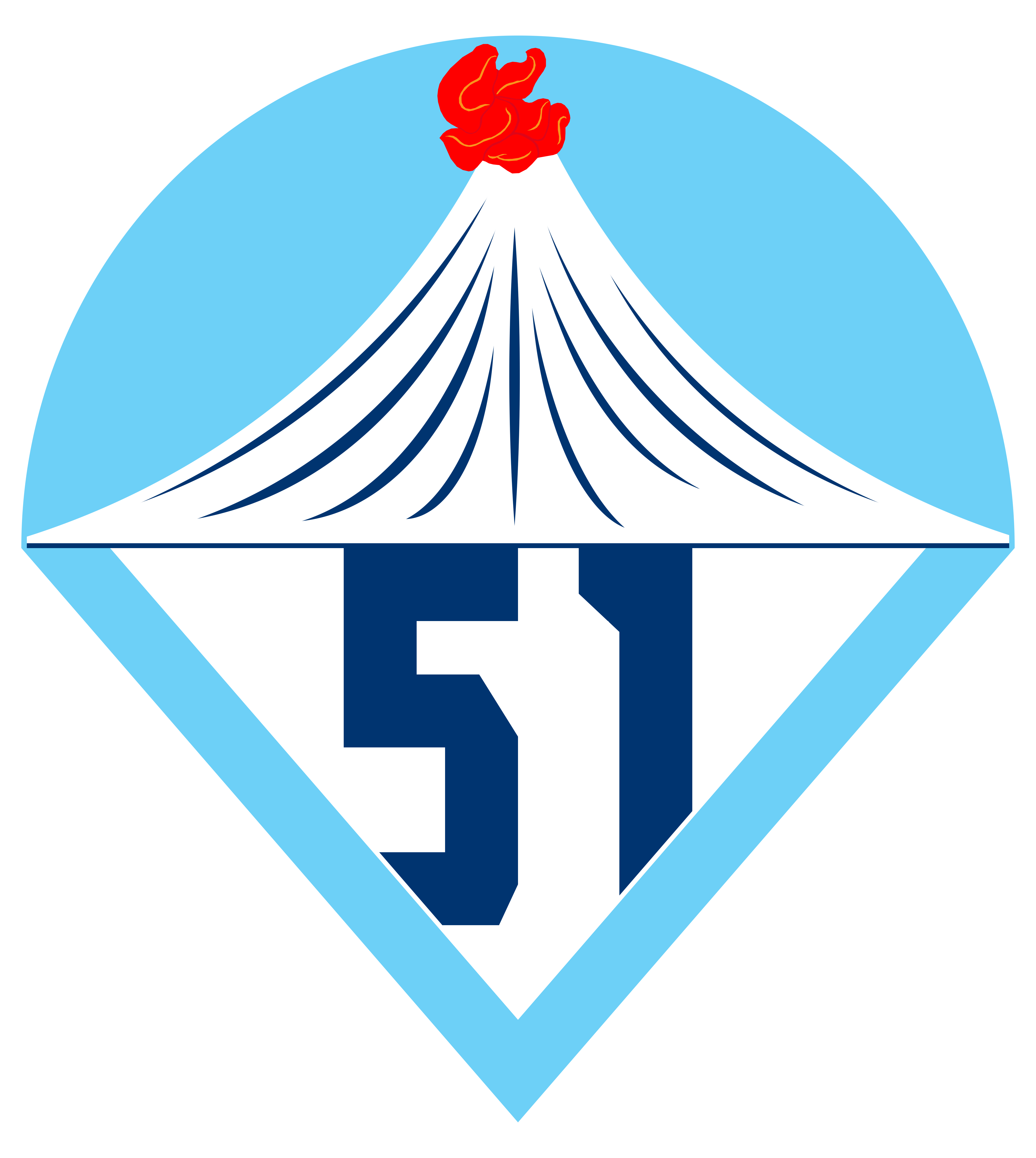 51st Philippine Division emblem from 1941-42, possibly not developed until late in that period or just after; color versions of this are a matter of record, and bronze version(s) of these emblems are seen on monuments around the Philippines.